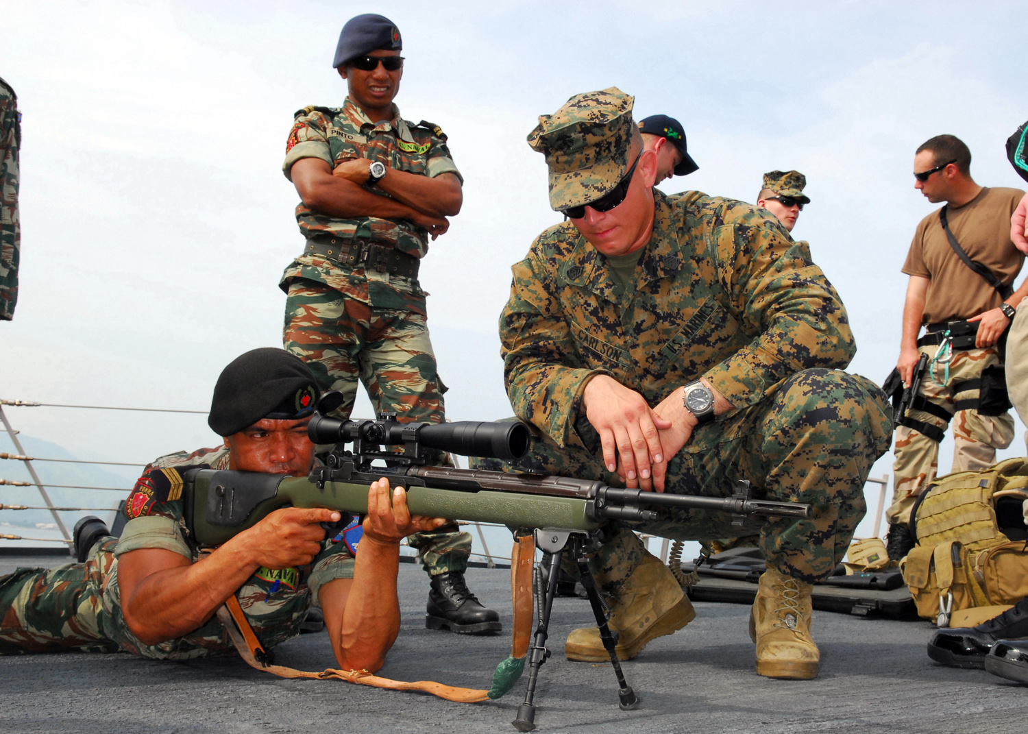 DILI, Timor-Leste (Jan. 28, 2009) Gunnery Sgt. Alex Carlson explains the specifications and uses of the M14 designated marksman rifle to members of the Timor-Leste Defense Force (Navy) aboard the Arleigh Burke-class guided-missile destroyer USS Lassen (DDG 82). Lassen arrived in Dili Jan. 26 on a scheduled port visit. Lassen is assigned to Destroyer Squadron 15 and is forward-deployed to Yokosuka, Japan.